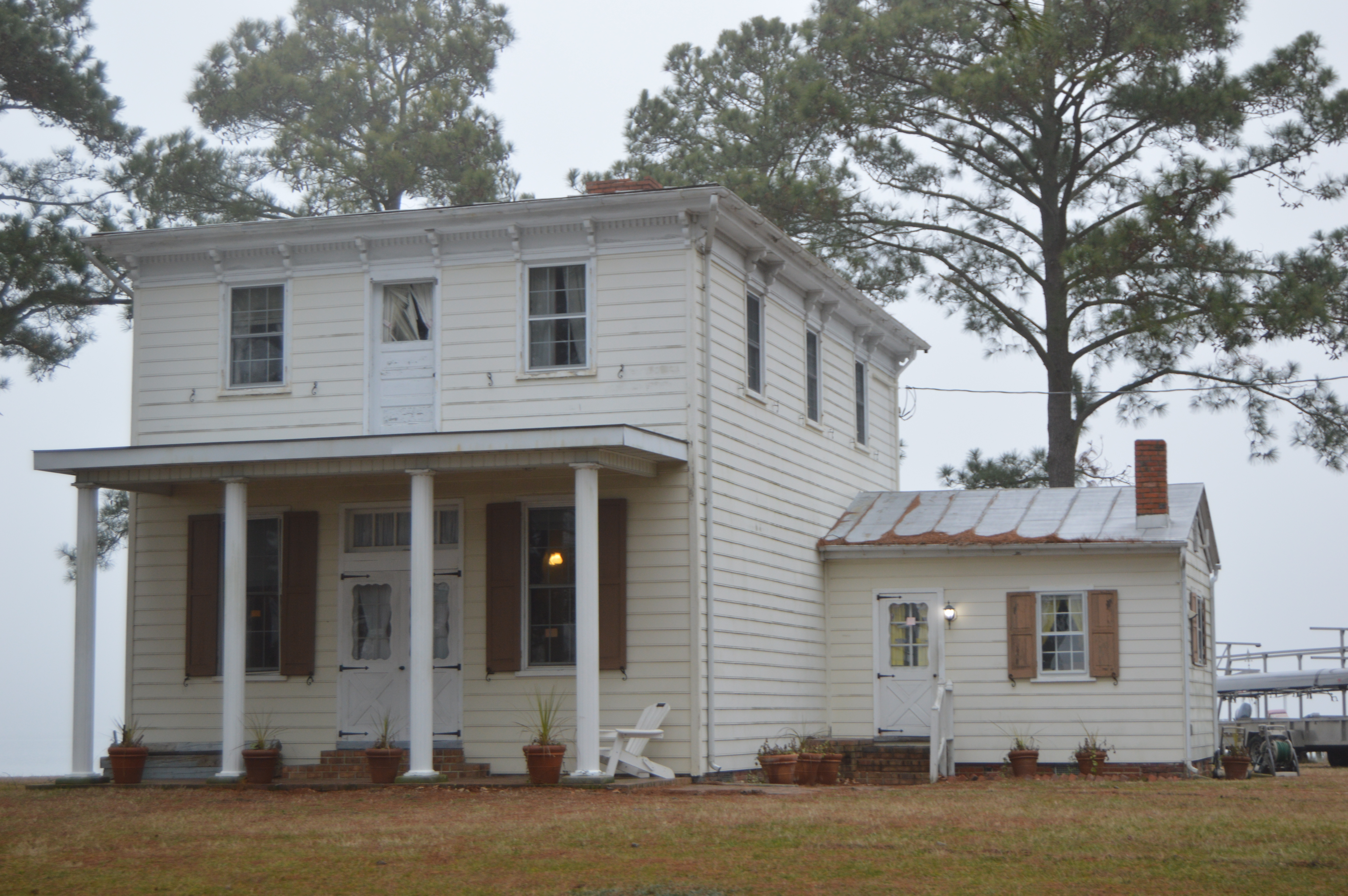 Front and eastern side of the B. Williams & Co. Store, located at the end of Williams Wharf Road south of Mathews in Mathews County, Virginia, United States. Built in 1870 and formerly occupied as a house and as a post office, it is listed on the National Register of Historic Places.